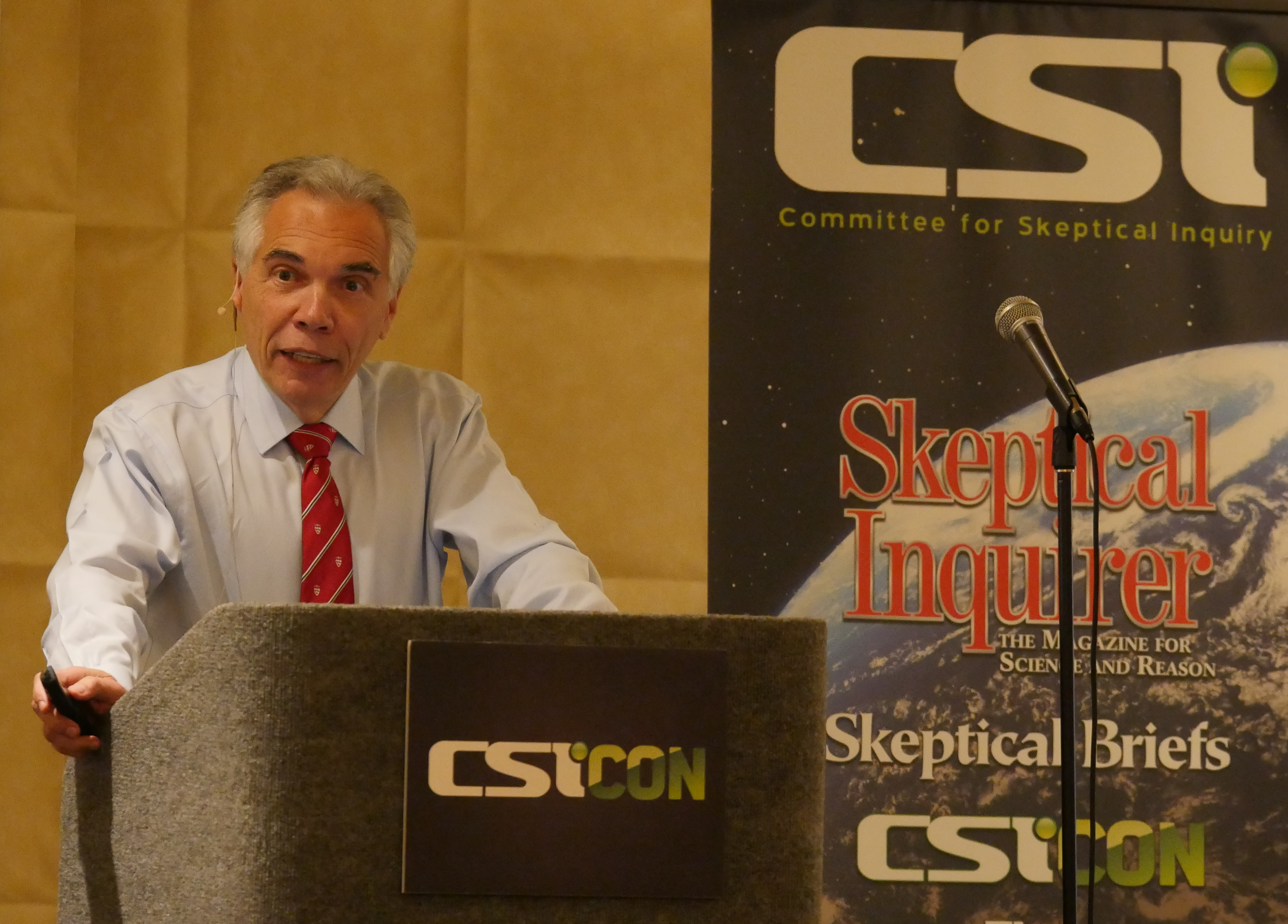 Joe Schwarcz Hey! There Are Cockroaches in my Chocolate Ice Cream! CSICon 2016